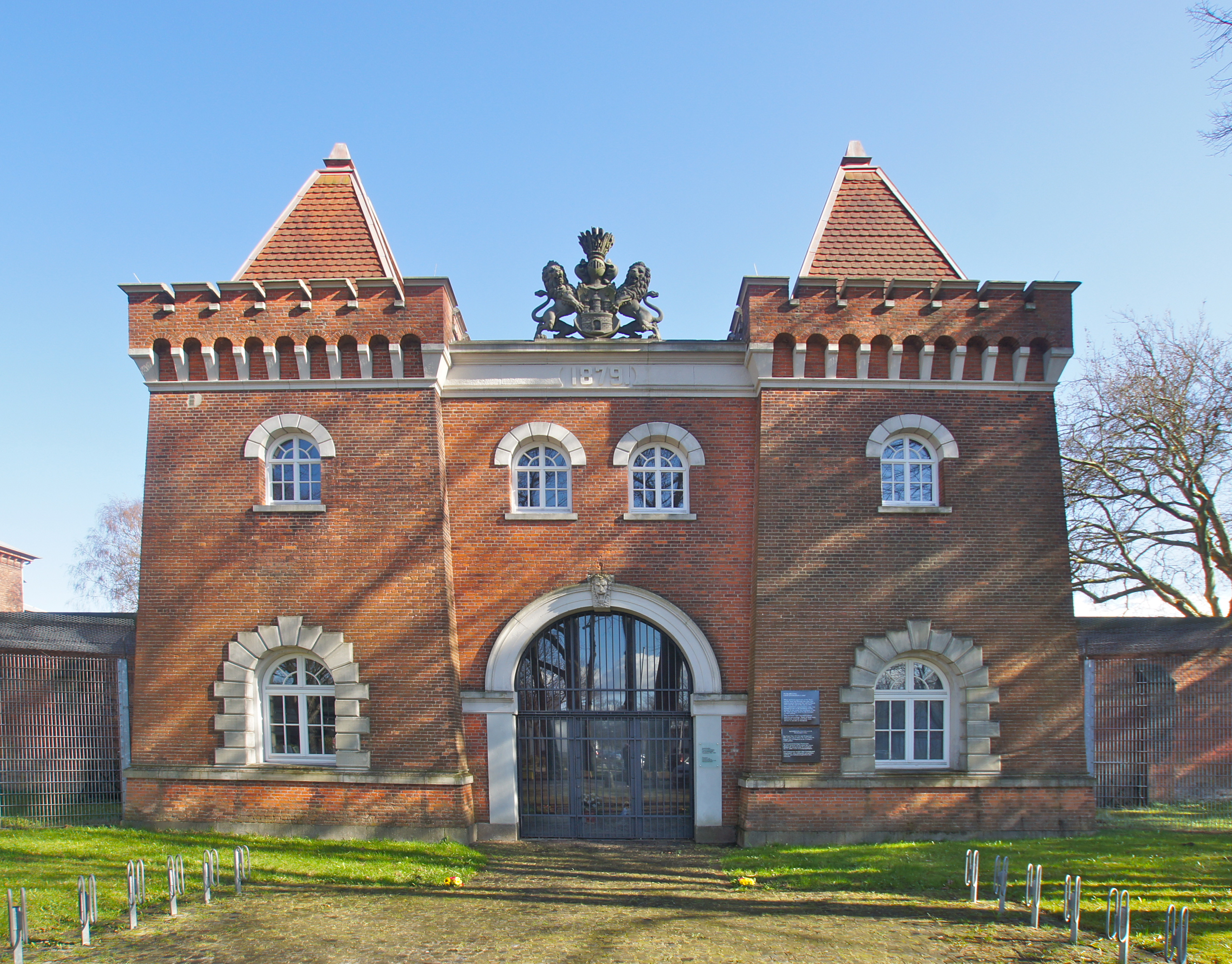 Hamburg (Ohlsdorf), Germany: Former head entrance of the JVA Fuhlsbüttel prison and memorial of the